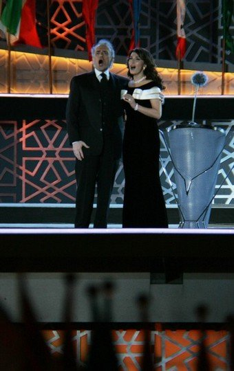 Majida El Roumi performing "Light The Way" with José Carreras during the opening ceremony of the Asian Games in Doha, Qatar in 2006.